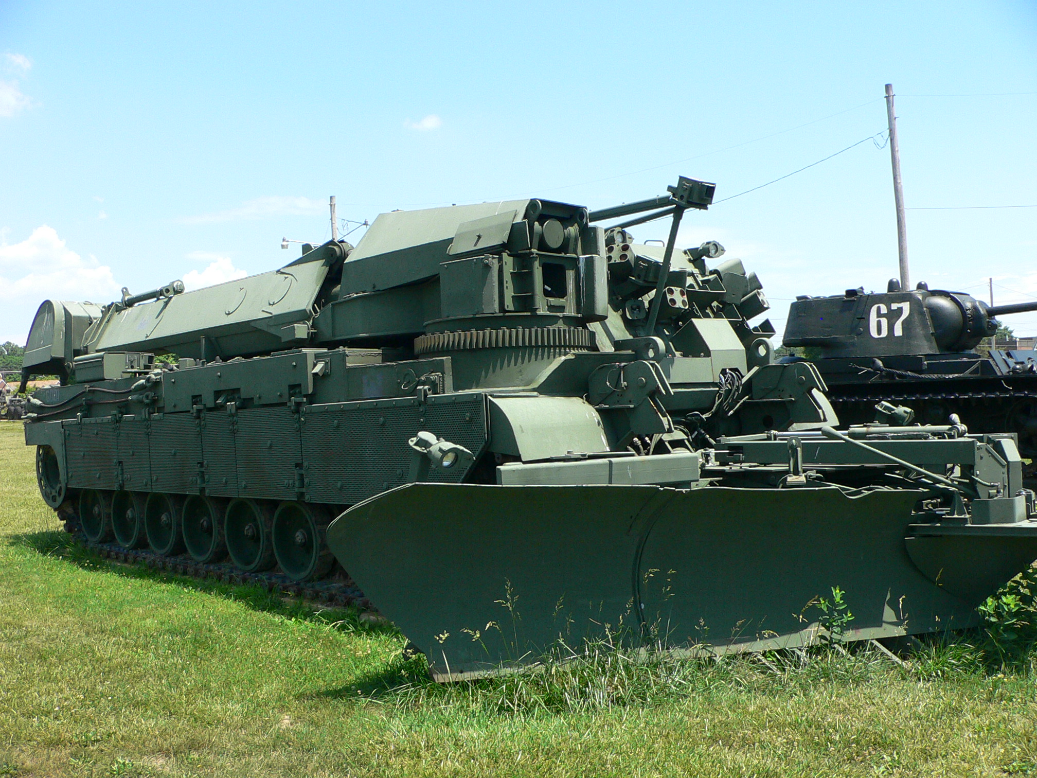 Picture taken by myself, Mark Pellegrini, at the United States Army Ordnance Museum (Aberdeen Proving Ground, MD) on June 12, 2007.